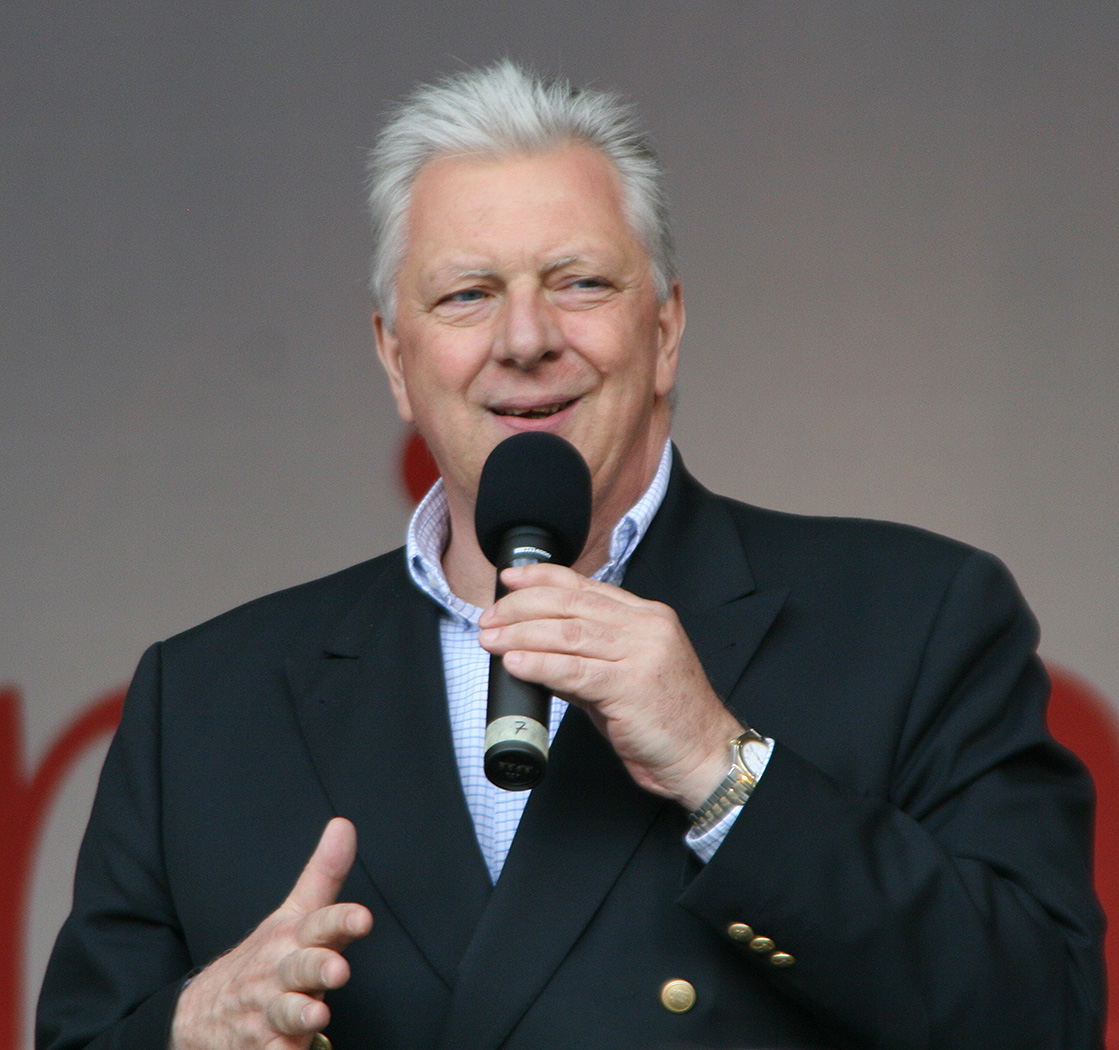 Austrian sport journalist and presenter Edi Finger junior during the opening of the fan zone for the UEFA Euro 2008 in Vienna